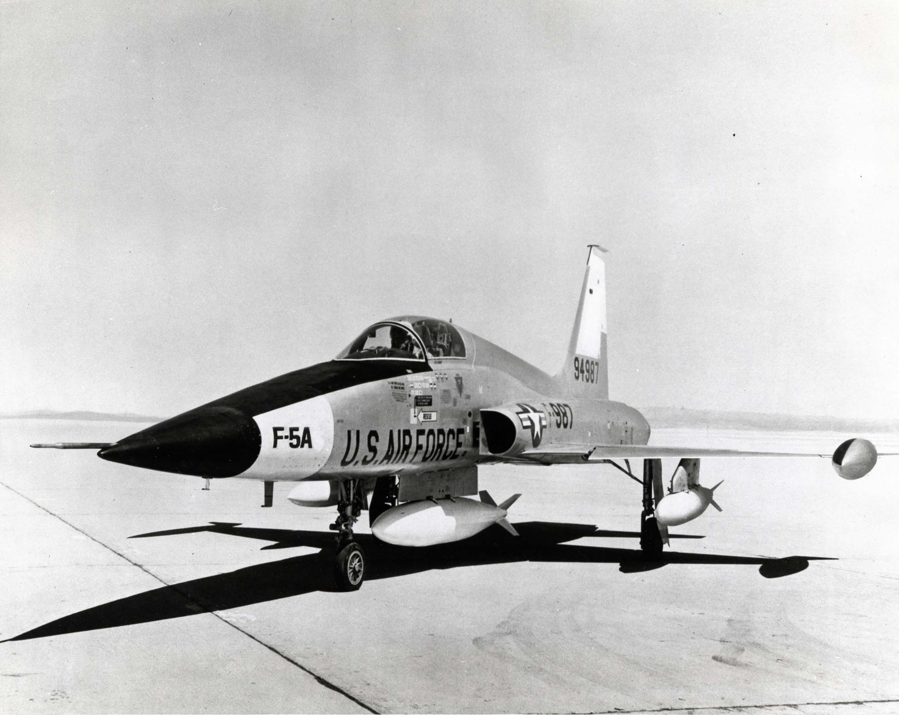 Northrop YF-5A (S/N 59-4987, first prototype aircraft).